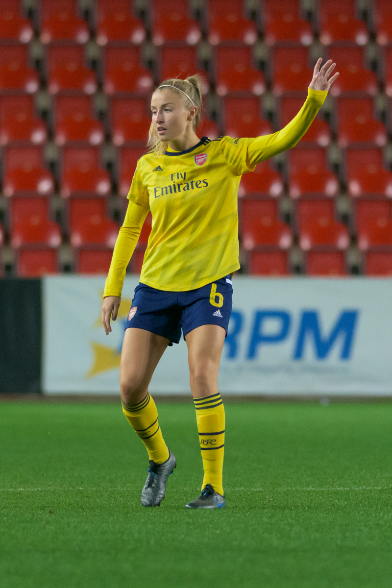 Leah Williamson during the match vs Slavia Praha (women), October 2019